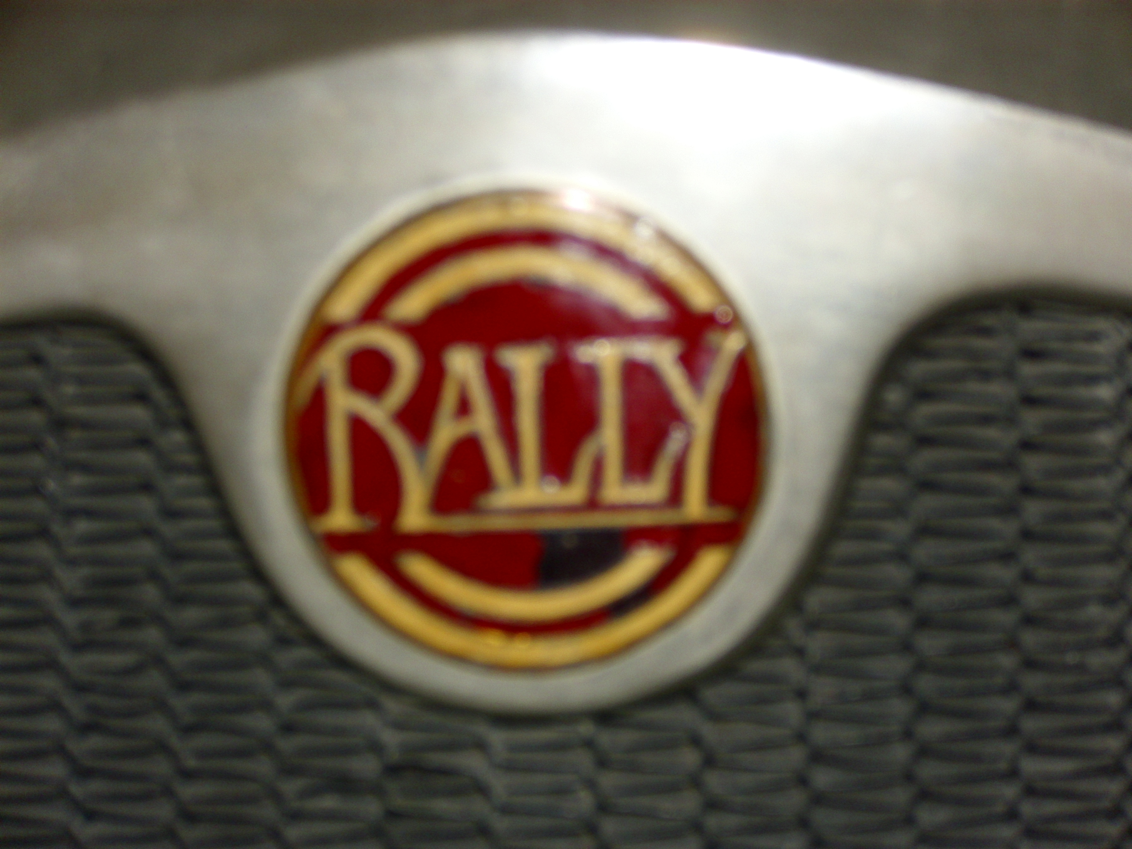 Emblem Rally